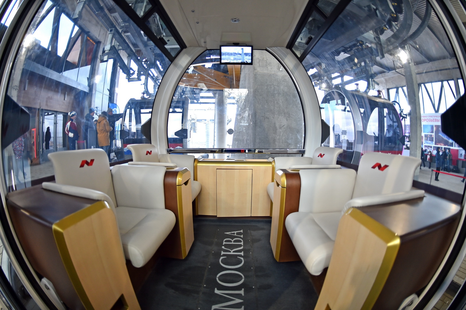 Moscow cable car